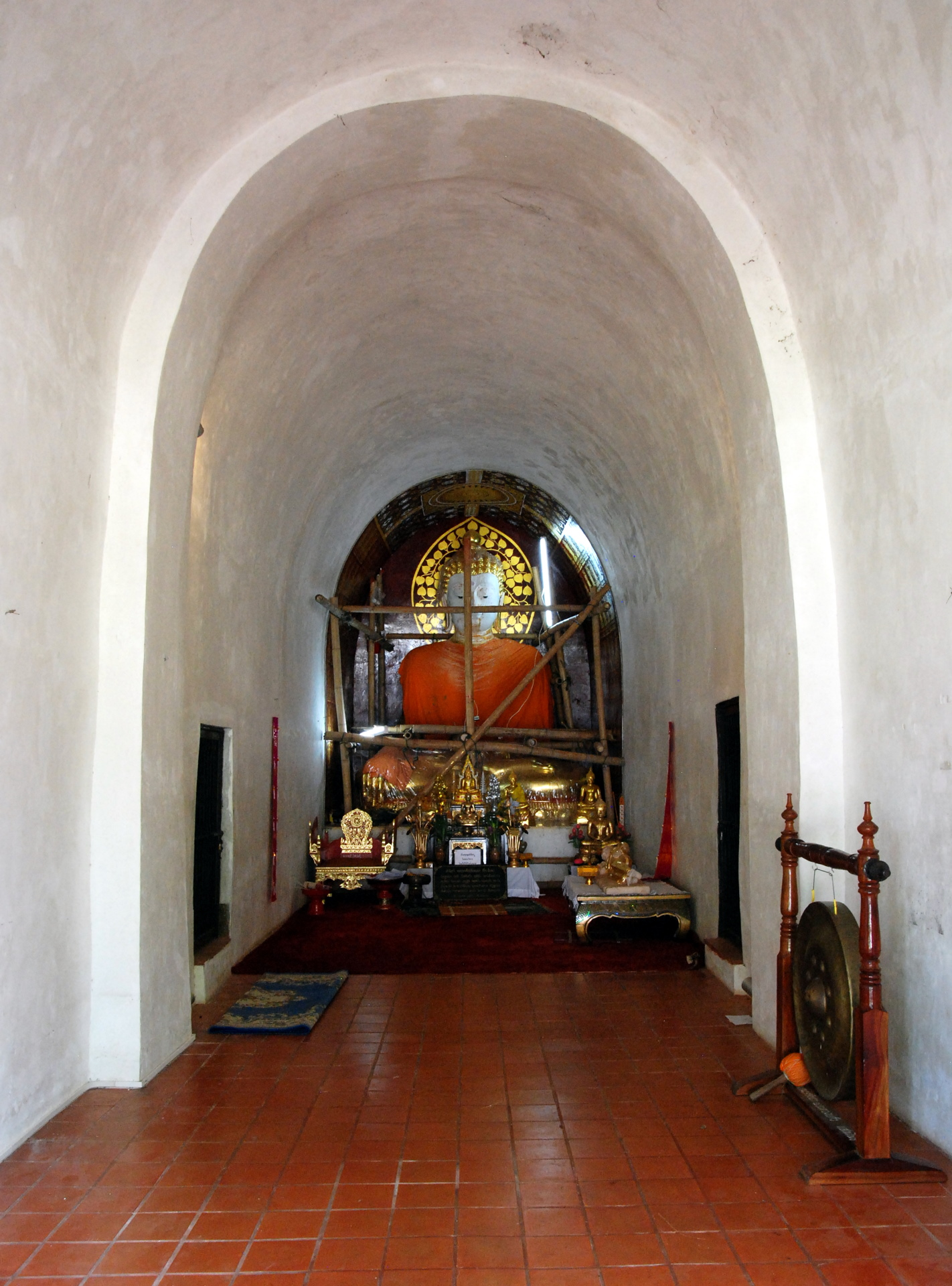 Wat Chet Yot (literally: Seven Spired Temple; Thai script:วัดเจ็ดยอด) The interior of the Maha Chedi under renovation. The entrances on both sides of the central hall leading towards the roof are now closed off.